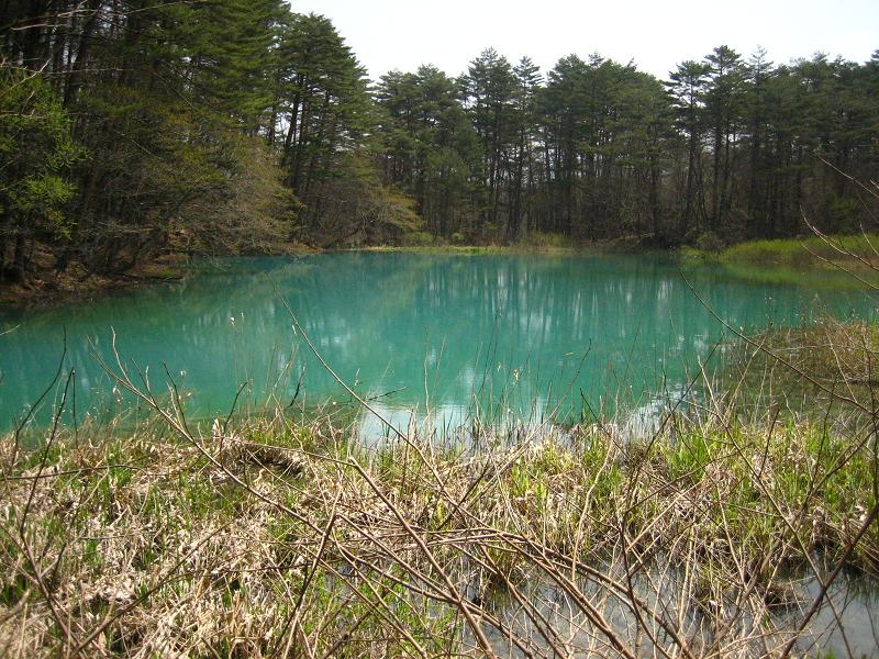 A picture of Ao-numa Pond, a volcanic lake in Fukushima, Japan, and one of the famed "Five Colored Lakes". Image was taken with a Canon PowerShot SD450 Digital Elph camera and edited using a Paint Shop program on a laptop computer.